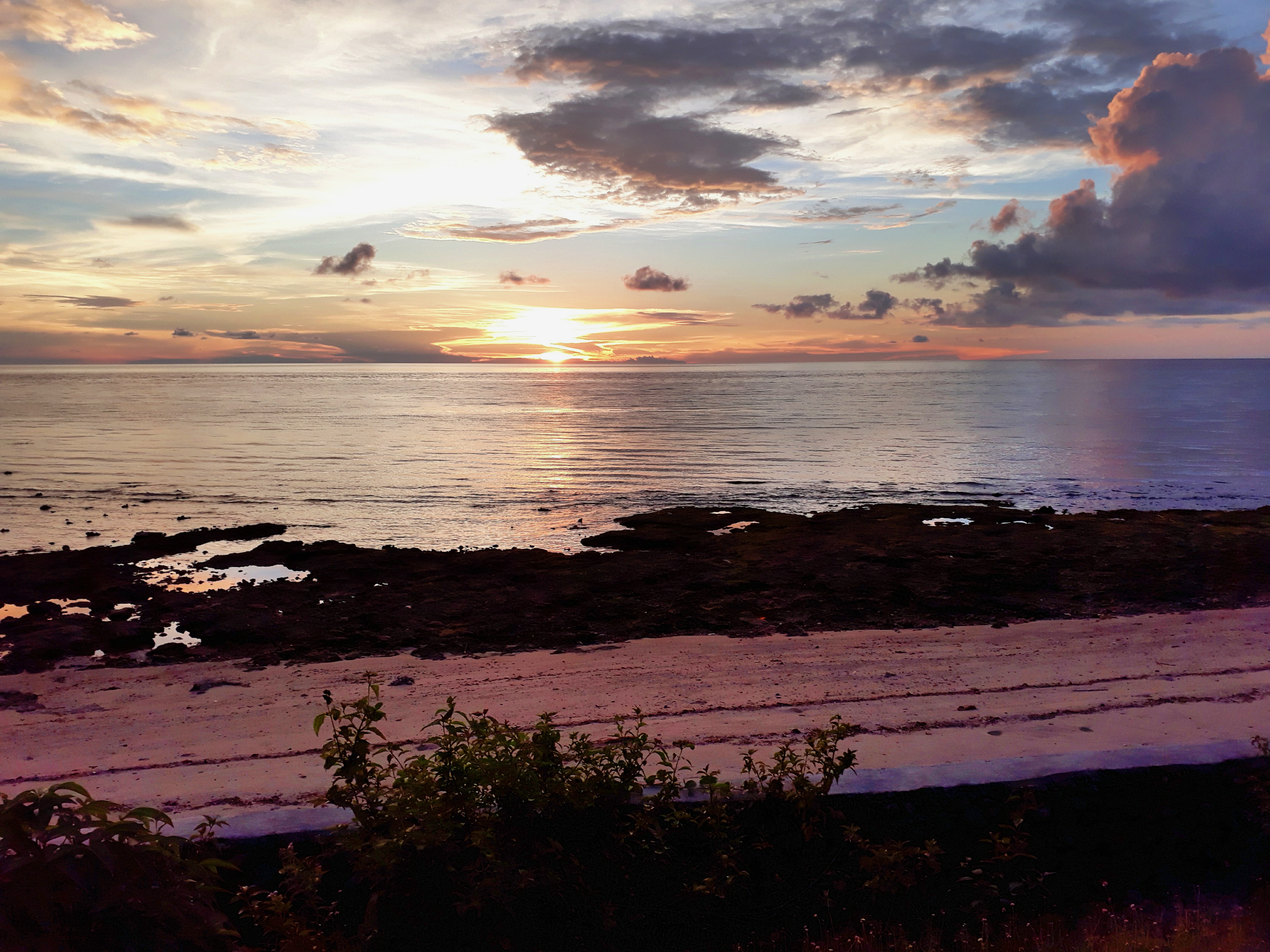 Location in Siraru Beach, Siraru Village, West beach, Central Sulawesi, Indonesia. Photo by Risna Monika